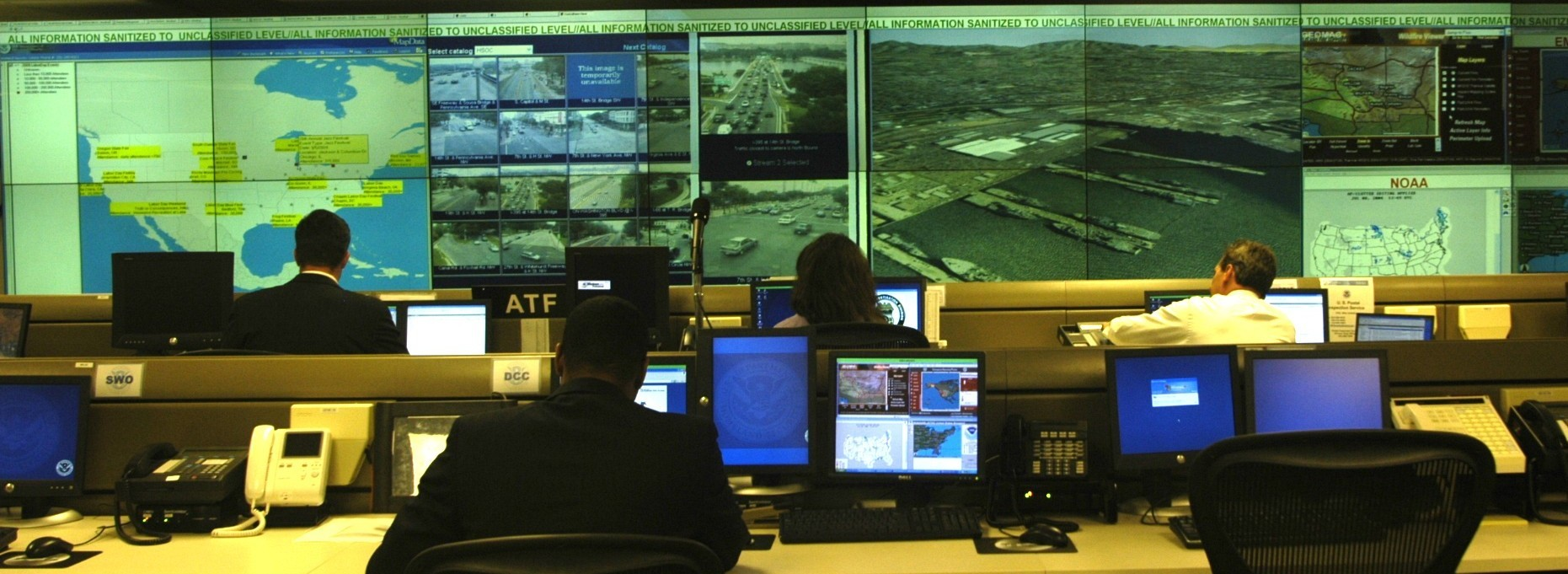 National Operations Center (NOC), Homelend Security, USA